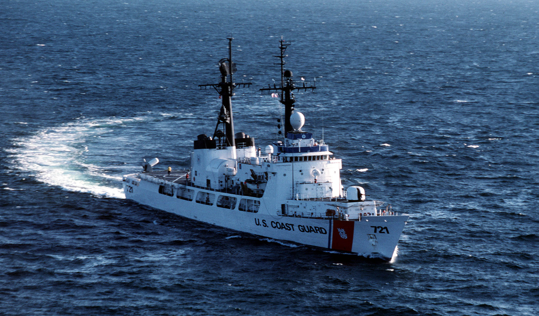 United States Coast Guard high-endurance cutter USCGC Gallatin (WHEC-721), June 3, 1994